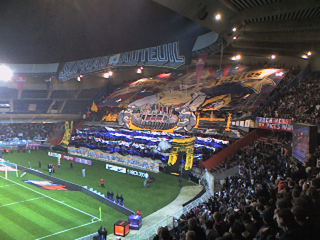 The 15 years anniversary of the "Supras Auteuil", fan group of Paris Saint-Germain, during PSG-Girondins de Bordeaux (18th of november, 2006).